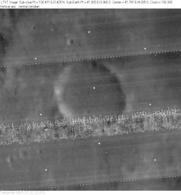 Lubbock lunar crater - Lunar Orbiter IV image LO-IV-065H